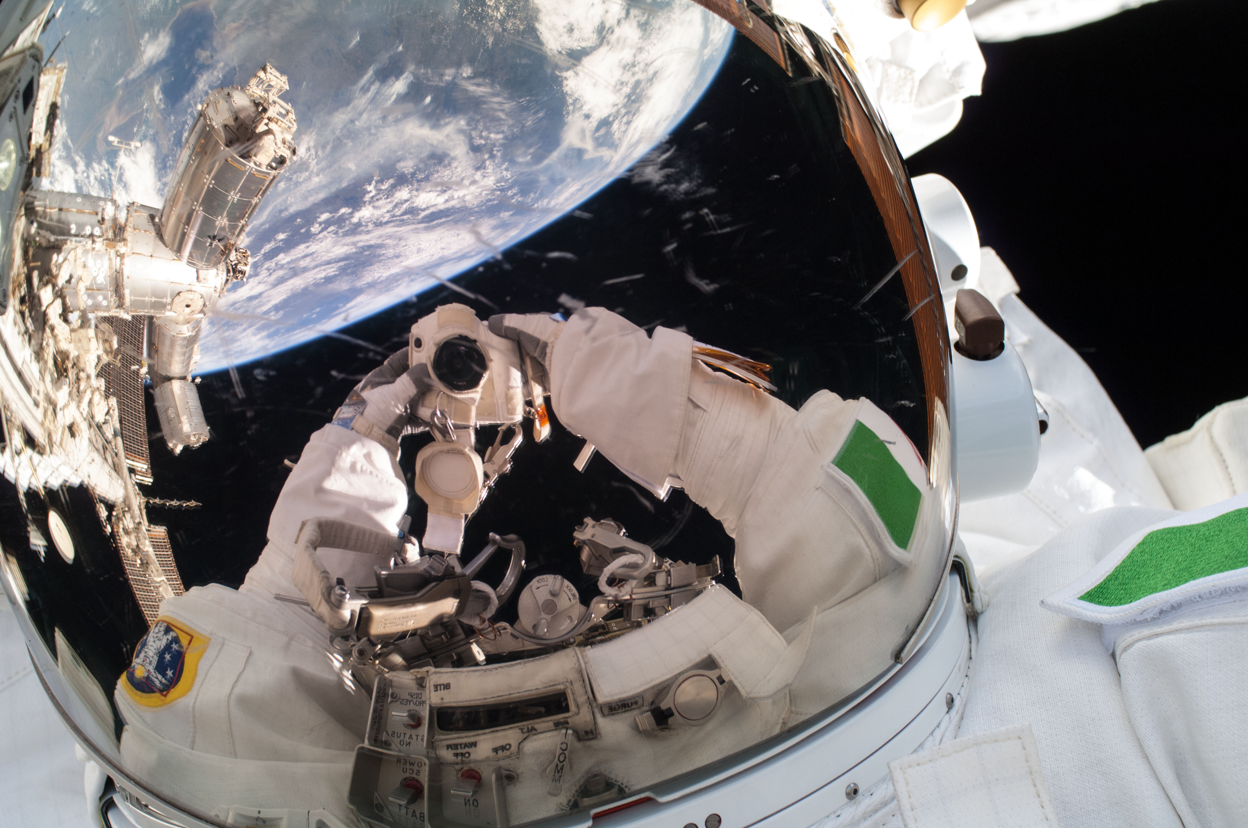 European Space Agency astronaut Luca Parmitano, Expedition 36 flight engineer, uses a digital still camera to expose a photo of his helmet visor during a session of extravehicular activity (EVA) as work continues on the International Space Station. Also visible in the reflections in the visor are various components of the space station and a blue and white portion of Earth. During the six-hour, seven-minute spacewalk, Parmitano and NASA astronaut Chris Cassidy (out of frame), flight engineer, prepared the space station for a new Russian module and performed additional installations on the station's backbone.